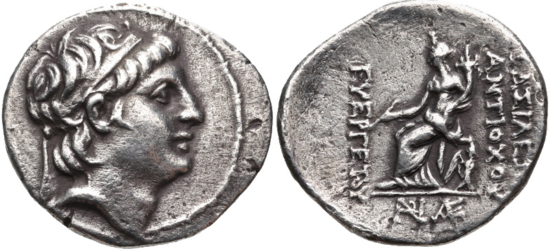 Seleukid Kings of Syria. Antiochos VII Euergetes (Sidetes). 138-129 BC. AR Drachm (20mm, 3.71 g, 12h). Soli mint. Diademed head right ΒΑΣΙΛΕΩΣ ΑΝΤΙΟΧΟΥ ΕΥΕΡΓΕΤΟΥ Tyche seated left holding scepter and cornucopia; two monograms in exergue. SC 2051; HGC 9, -; Houghton, “The Royal Seleucid Mint of Soloi,” NC 1989, 78 (same dies); LHS 95, lot 715 (same obv. die). VF, toned. Extremely rare - the third known.